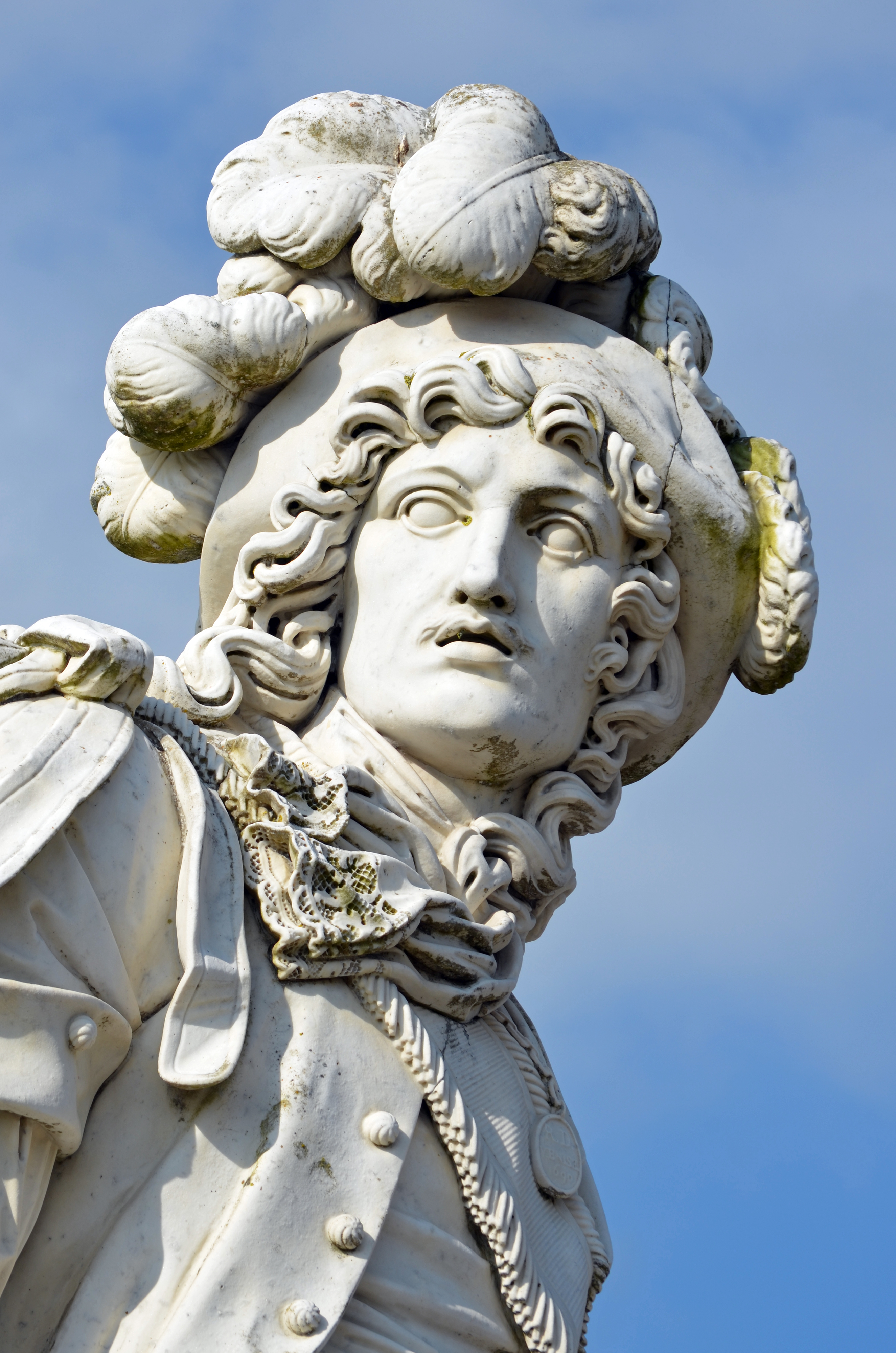 Statue of Anne Hilarion de Costentin de Tourville (1642-1701) by Joseph Charles Marin. Tourville-sur-Sienne, France.